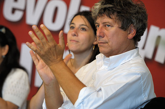 Éric Coquerel, President of MARS - Gauche républicaine